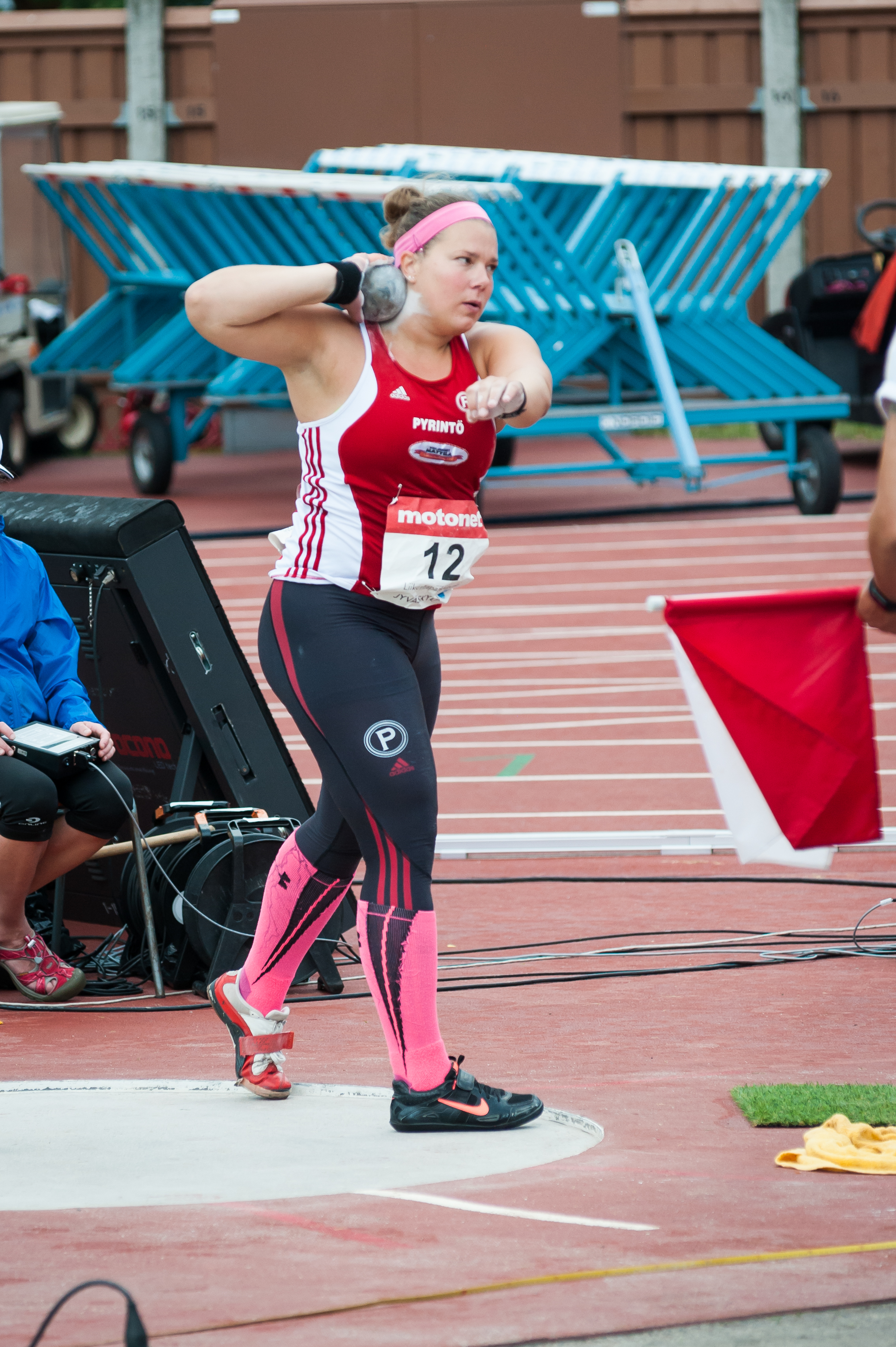 Women's shot put competition at the 2018 Kalevan Kisat, the Finnish championships in athletics, in Jyväskylä, Finland.